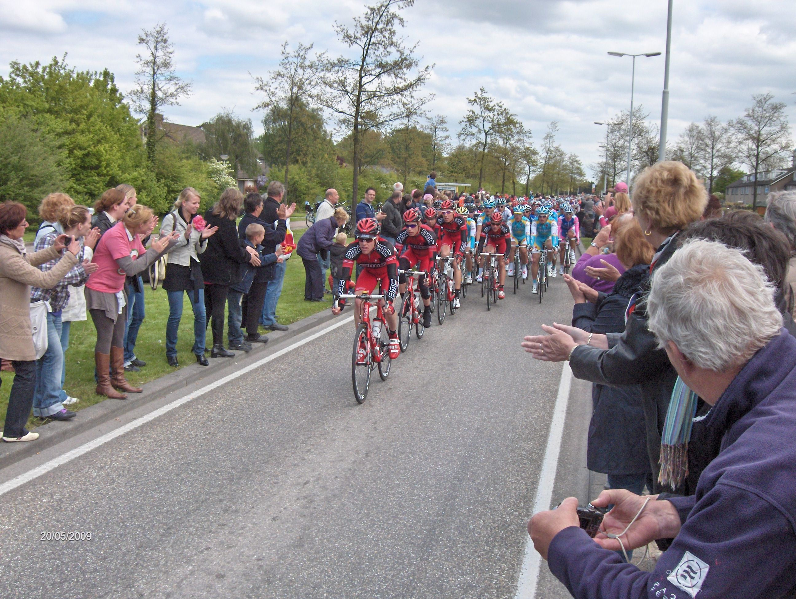 Giro d'italia in the Dutch city of Hellevoetsluis